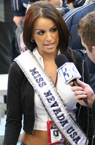 Veronica Grabowski, Miss Nevada USA 2008, during Super Bowl XLII